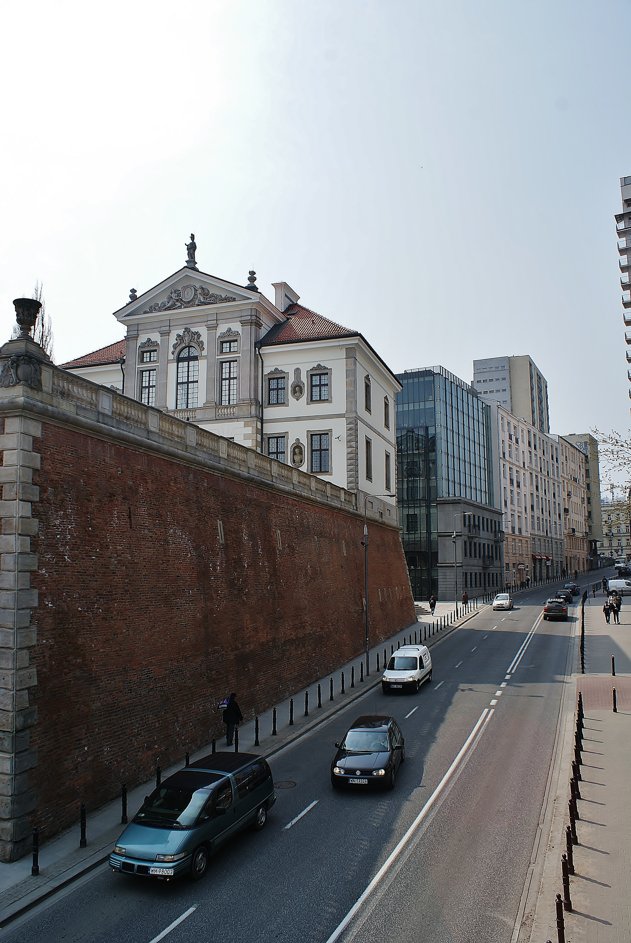 Tamka Str., Warsaw, Poland